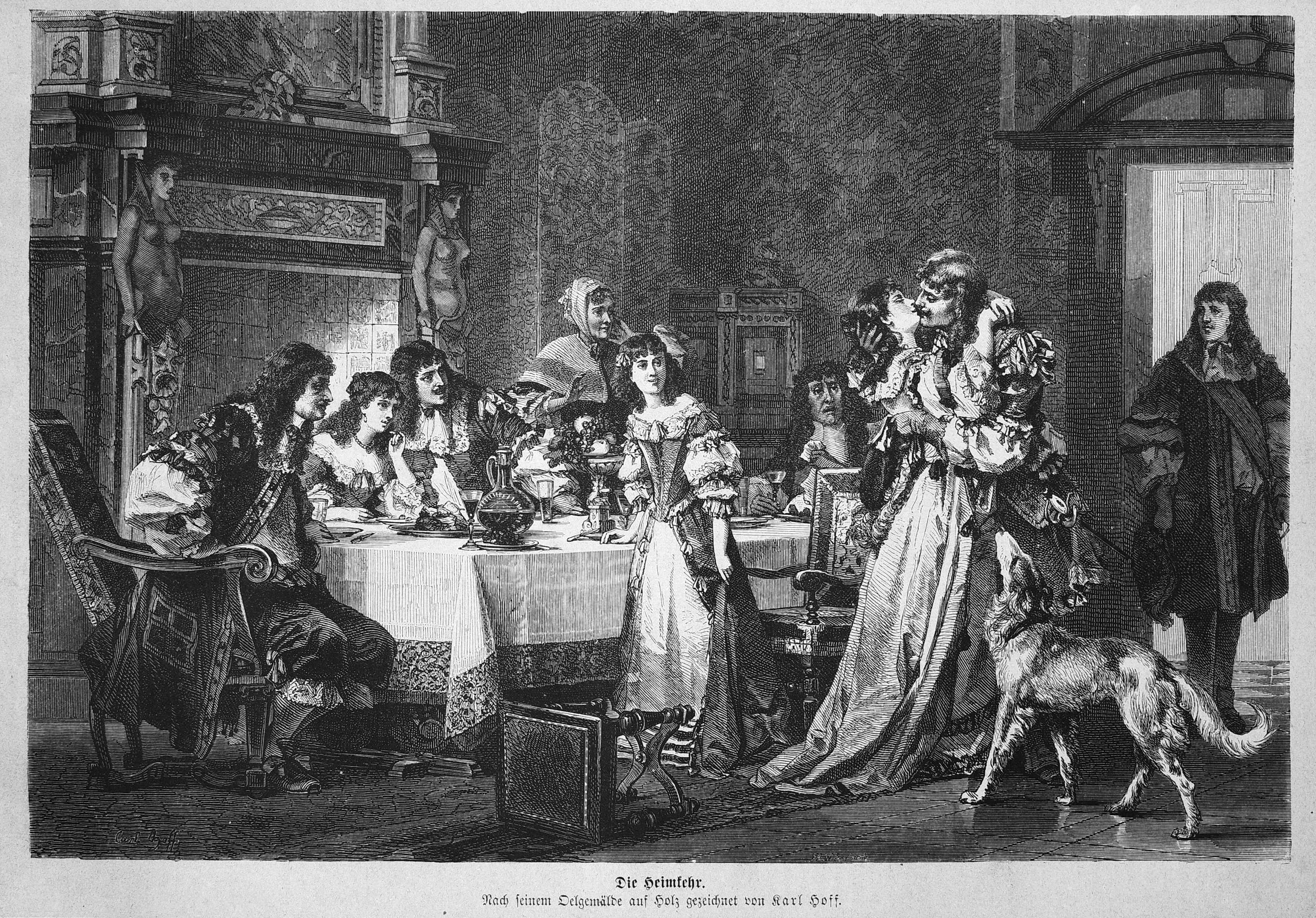 Die Heimkehr (the homecoming) after Karl Hoff. Image from page 337 of journal Die Gartenlaube, 1872.